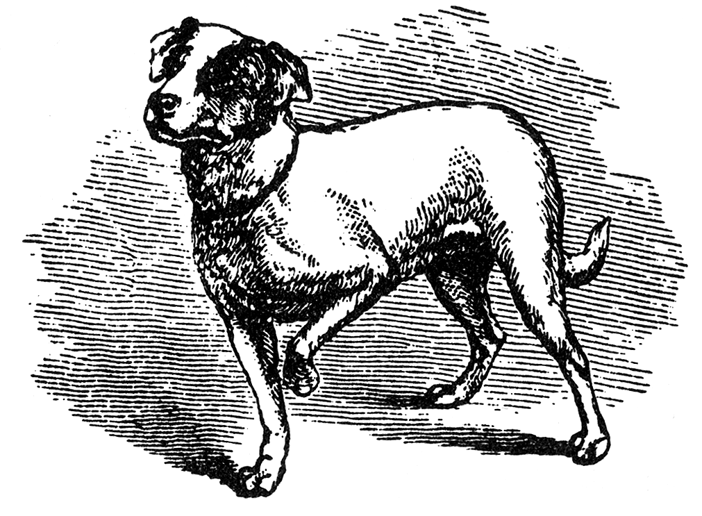 Figure 4 from Charles Darwin's The Expression of the Emotions in Man and Animals. Caption reads "FIG. 4. —Small dog watching a cat on a table. From a photograph taken by Mr. Rejlander."